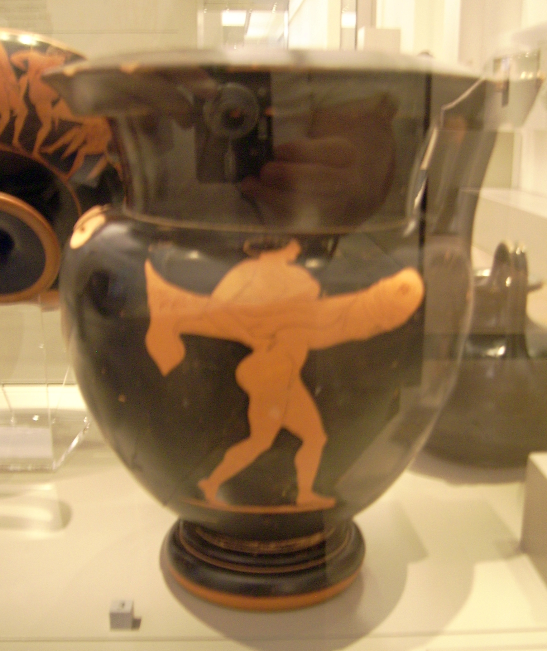 Red-figure krater by the Pan Painter, depicting a nude woman carrying a oversized phallus.